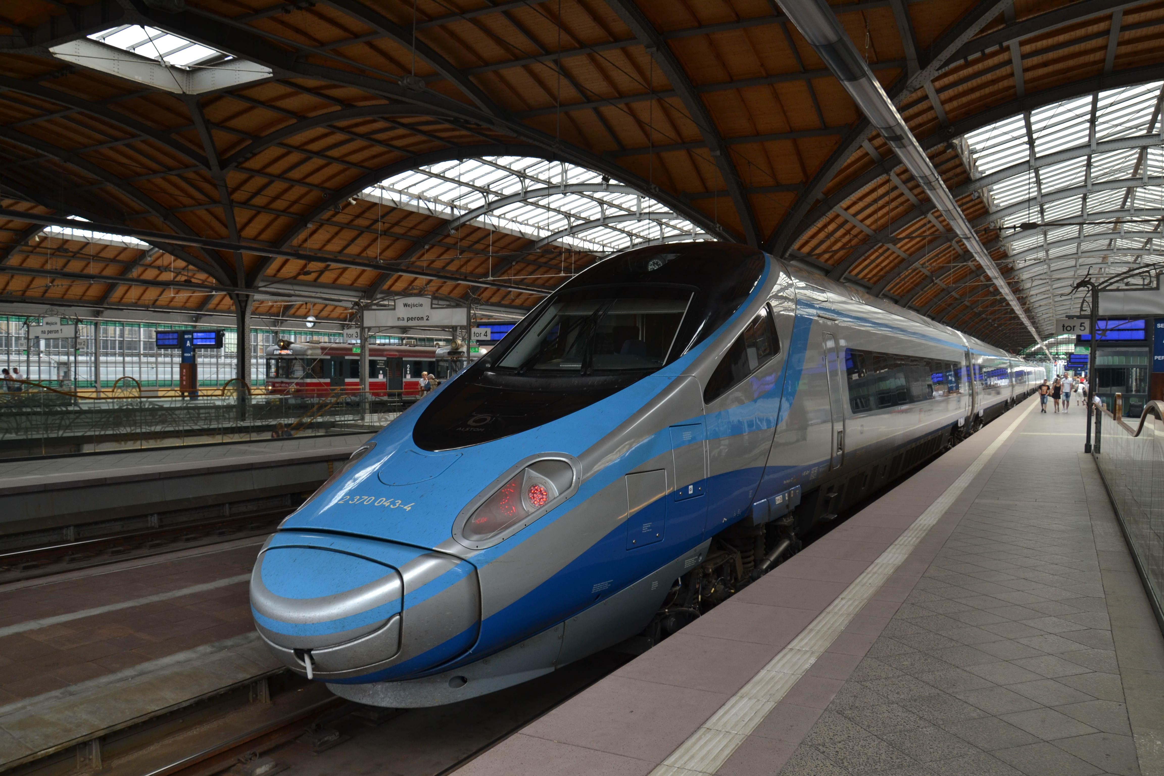 ED250-007 na stacji Wrocław Główny This photo was taken during Railway Wikiexpedition 2015 set up by Wikimedia Polska Association in cooperation with Fundacja Grupy PKP. You can see all photographs in category Wikiekspedycja kolejowa 2015.